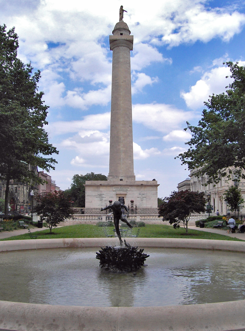 Depicted place: Washington Monument